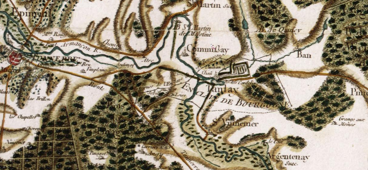 Portion of Cassini map (18th cent.) showing an area of about 7 km North-South x 15 km East-West, on the east of Tonnerre in the present Yonne departement, east of Burgundy. The Armançon river flows from the middle of the bottom side of the picture, to the upper left corner. Settlements along the river, going downstream: see description further down.